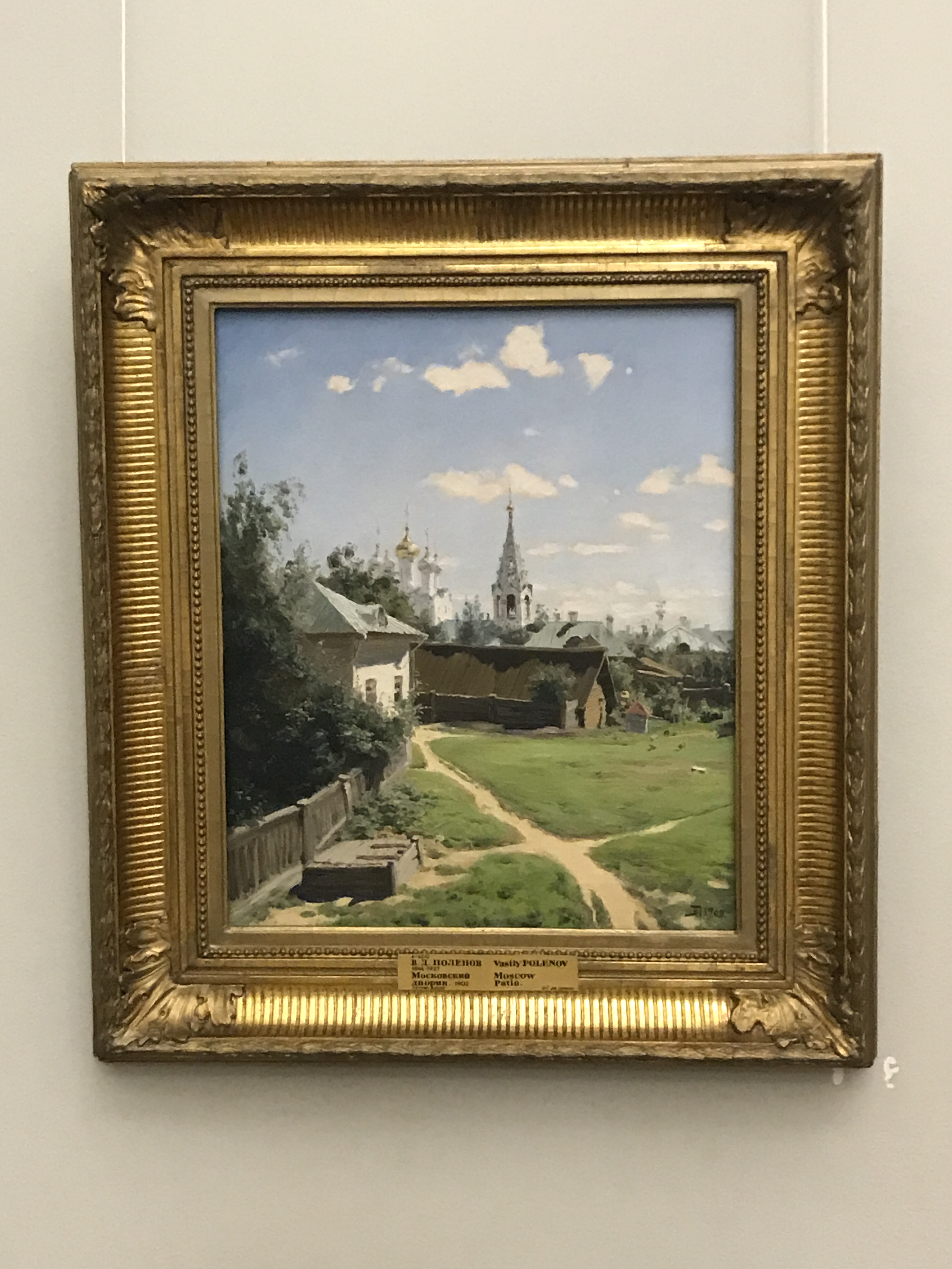 Moscow courtyard (author's copy, by Vasily Polenov, 1902, in the State Russian Museum)